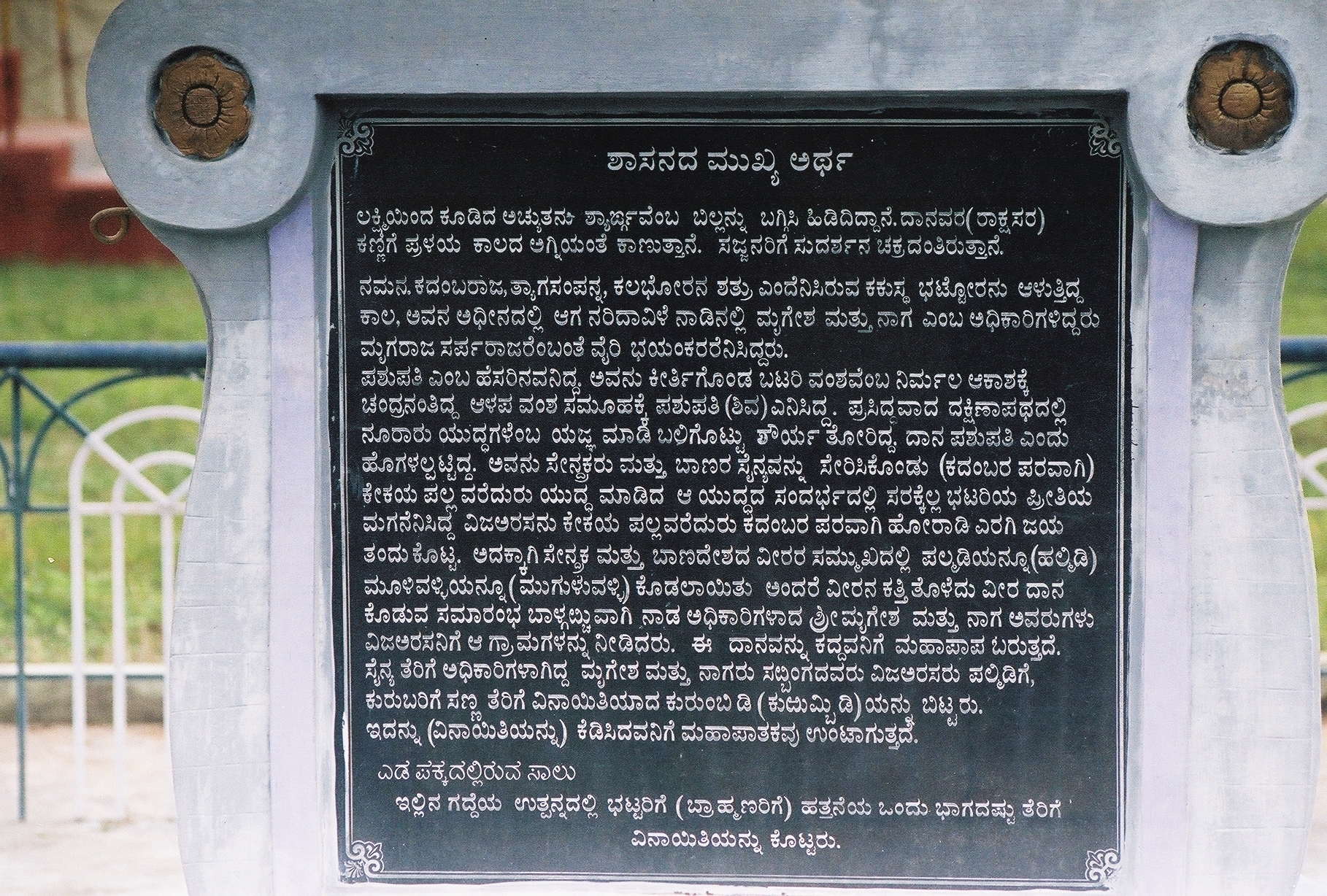 This photograph of the Halmidi inscription translated into modern Kannada language was taken by self (Dinesh Kannambadi) at Halmidi village, Hassan district, Karnataka state, India in August 2007